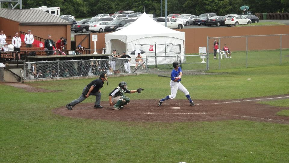 kent